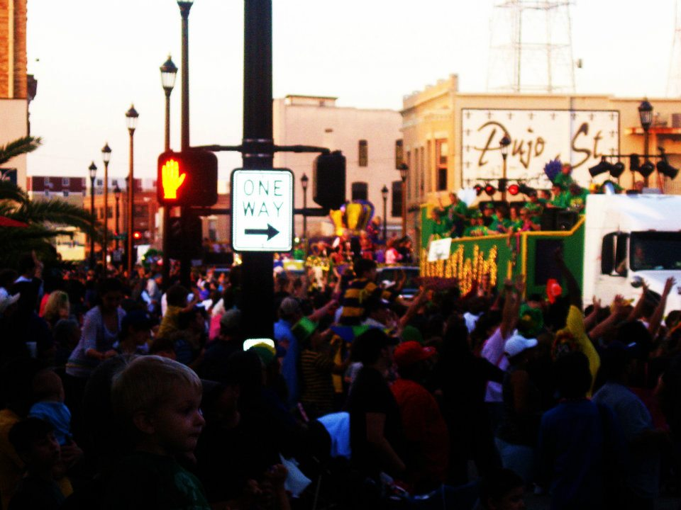 Mardi Gras parade in downtown Lake Charles.